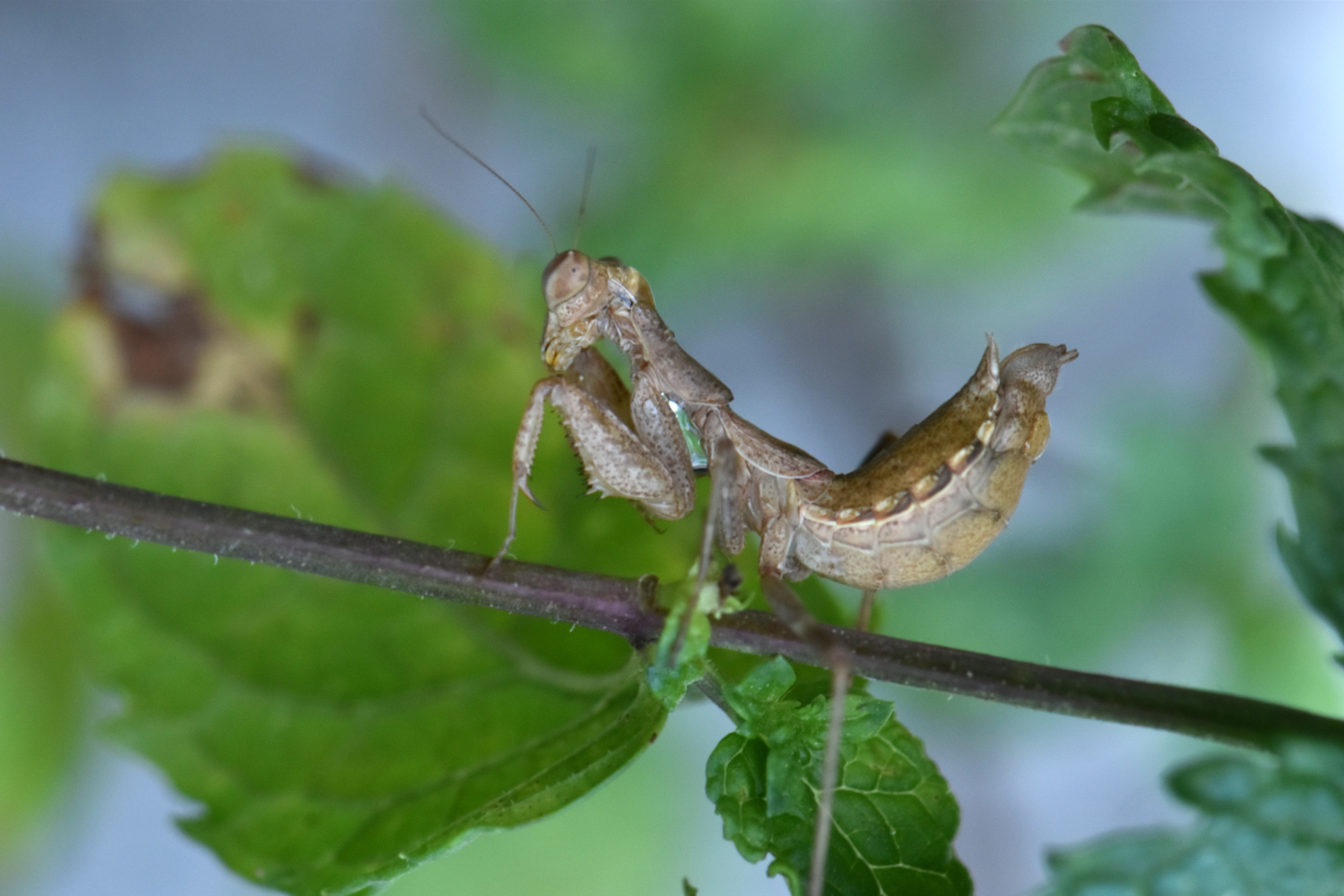 Image of Ameles spallanzania, European Dwarf Mantis